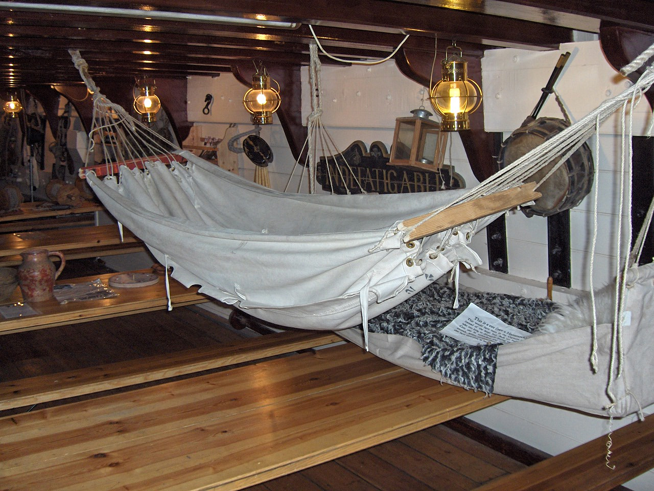 Grand Turk, a replica of a three-masted 6th rate frigate from Nelson's days. - hammock